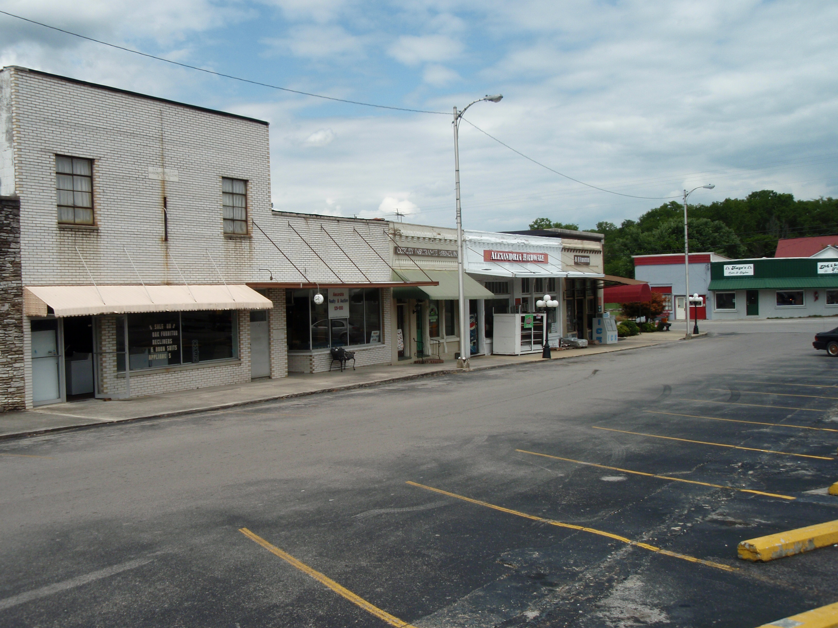 Shops in Alexandria, Tennessee